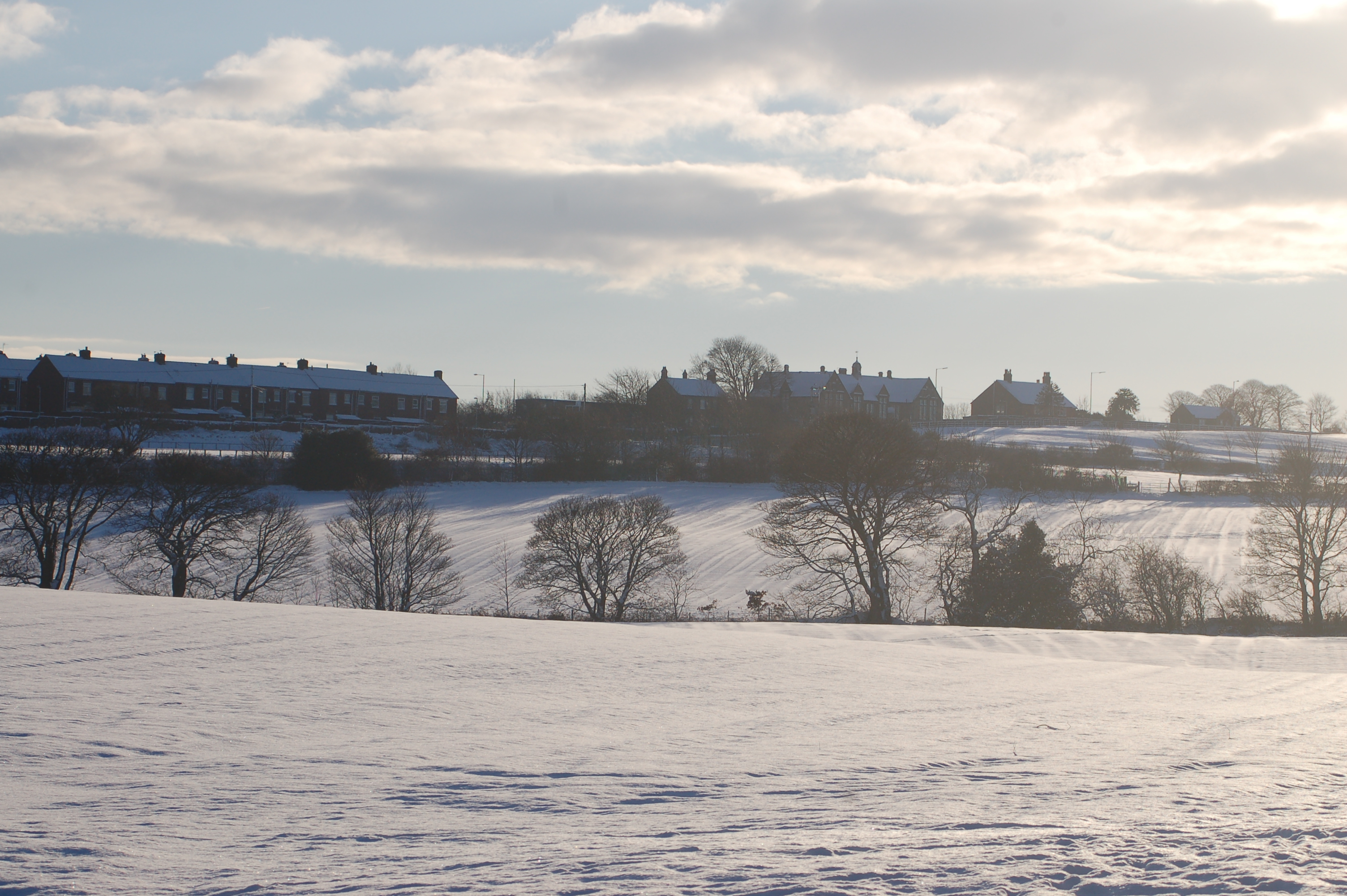 Marley Hill viewed from Sunniside